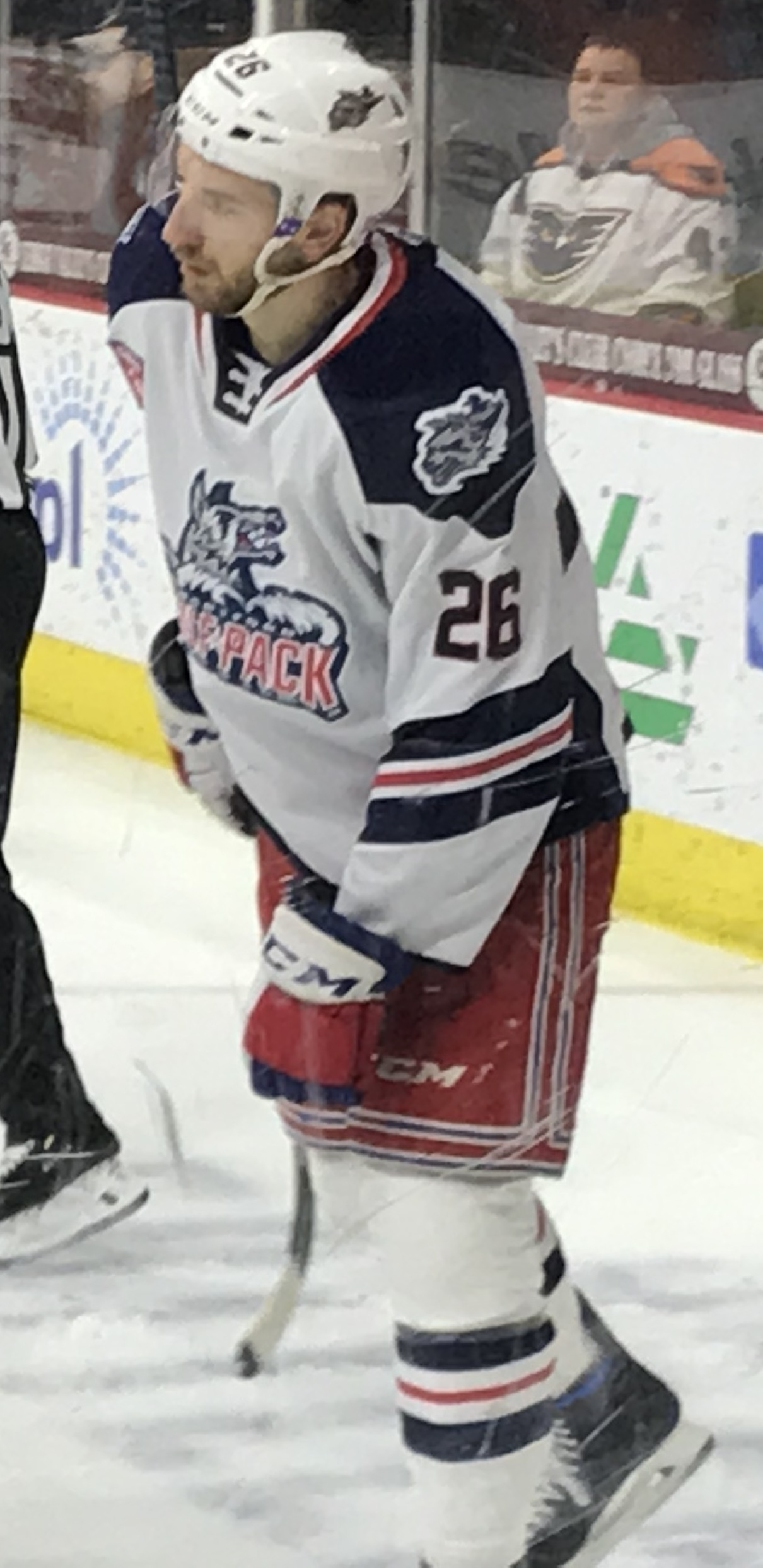 Tim Gettinger with the Hartford Wolf Pack ice hockey team, at the PPL Center in Allentown, Pennsylvania, on December 14, 2019.